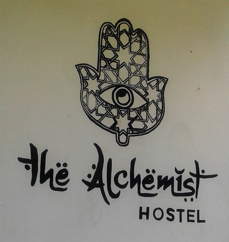 Mural of a hostel in Taganga, Santa Marta, Colombia Note: I have no affiliation with this hostel; it's outside at street level